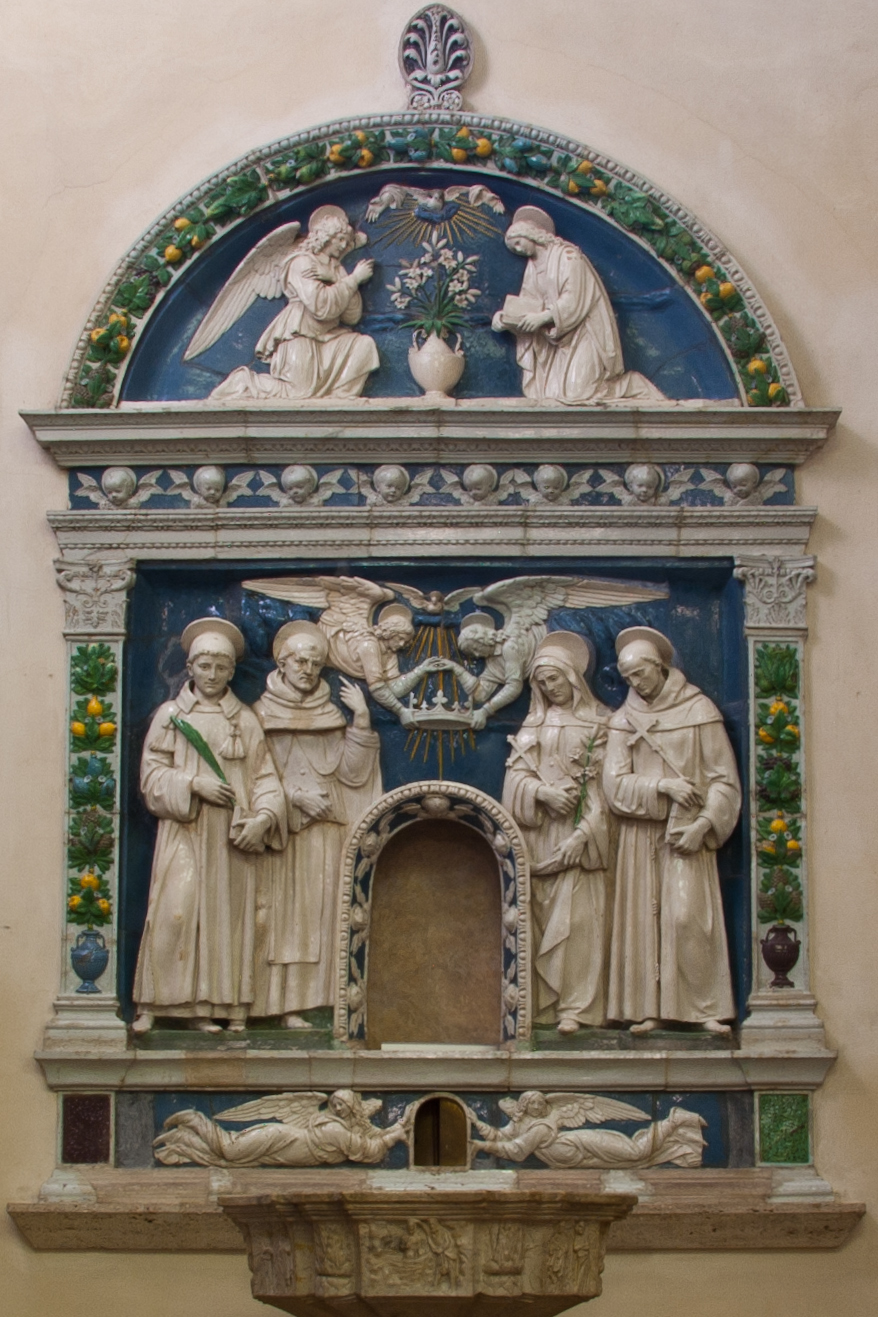 Altar of the Lilies by Andrea Della Robbia, inside the Duomo of Montepulciano